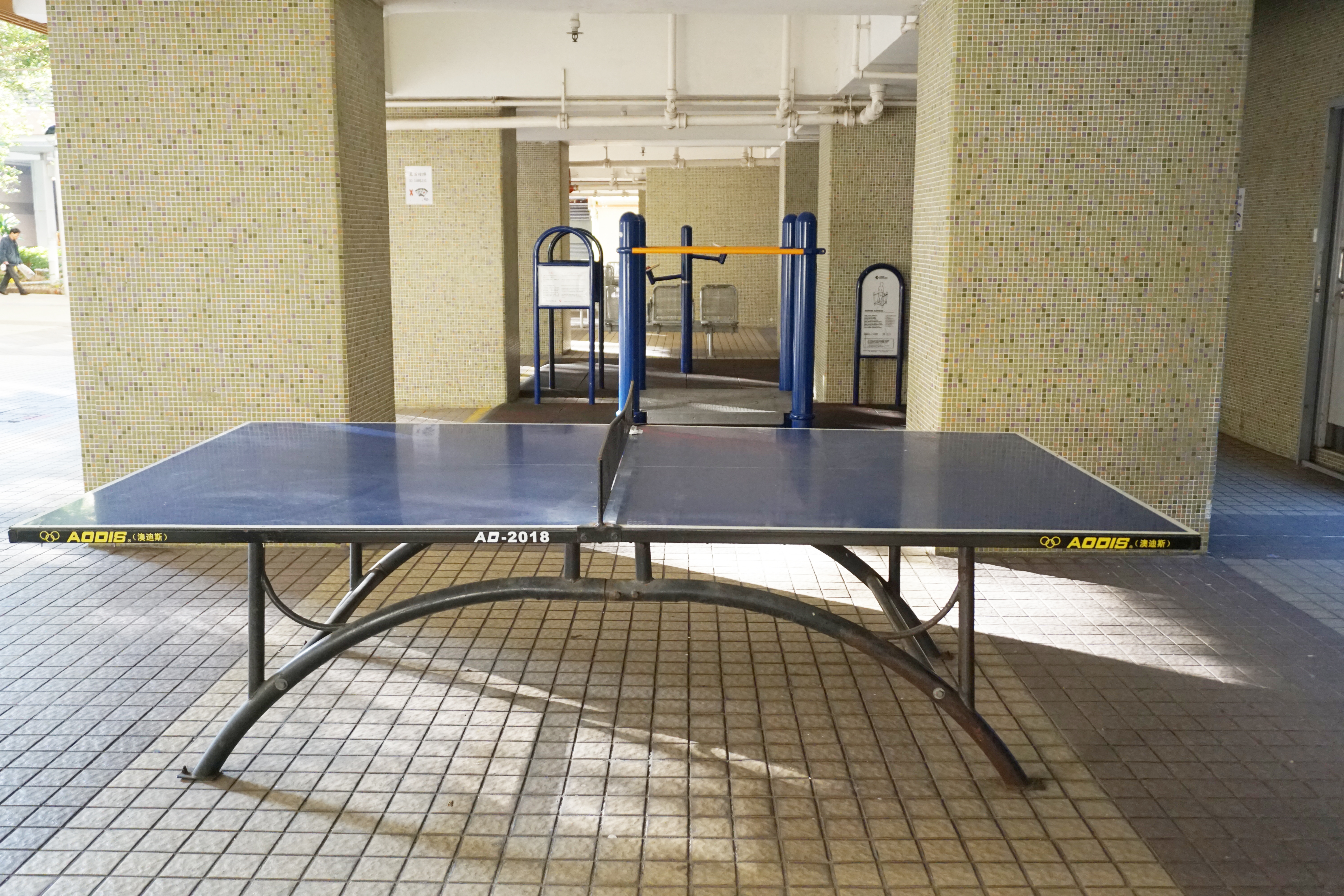 Shek Yam Estate in Shek Yam, Hong Kong.